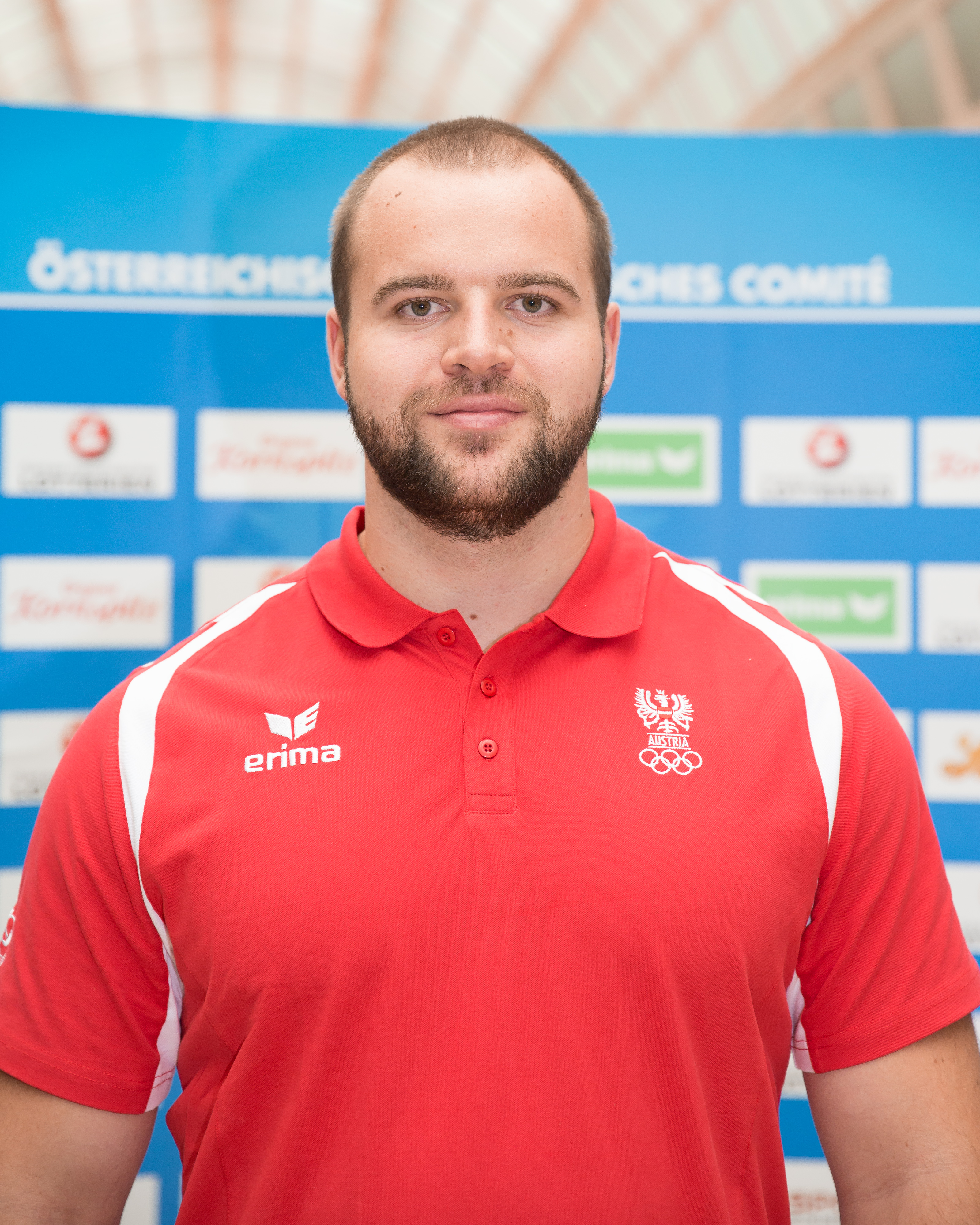 Lukas Weißhaidinger at the hand-out of the Austrian teams official attire for the 2016 Summer Olympics (Marriott, Vienna).